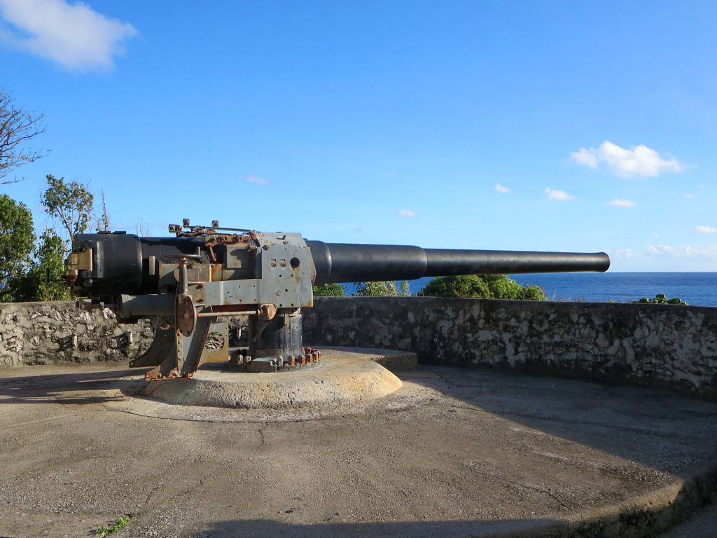 Six-inch gun at Flying Fish Cove, Christmas Island